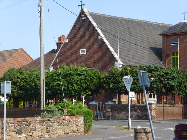 St Nicholas' Orthodox Church, Muxton, Shropshire